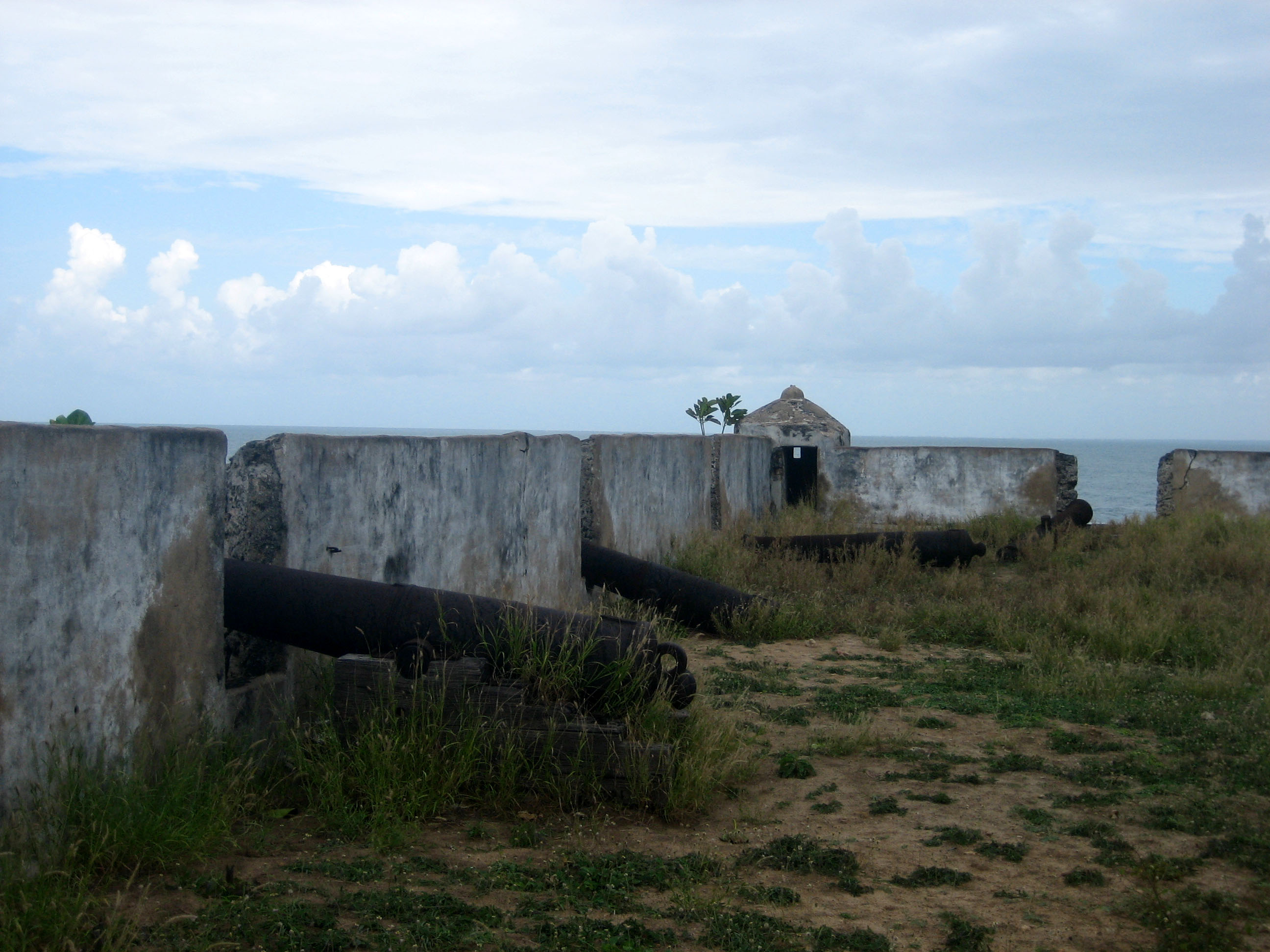 Fort of Sao Sebastiao